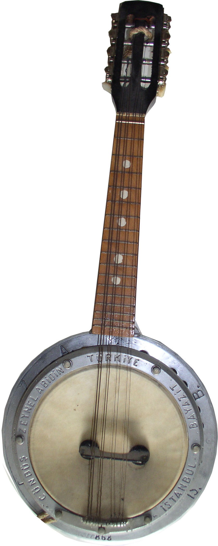 a Turkish Banjo Mandolin built like Cümbüş, stringed instrument of relatively modern origin. Developed in the early 20th century by Zeynel Abidin Cümbüş. Attention, on the instrument it's written Cünbüş. (Until the Turkish Language Association fixed the rule, nb -in consequent syllables- was possible in Turkish; later it was changed to mb as in "ambar", "cümbüş" etc.)